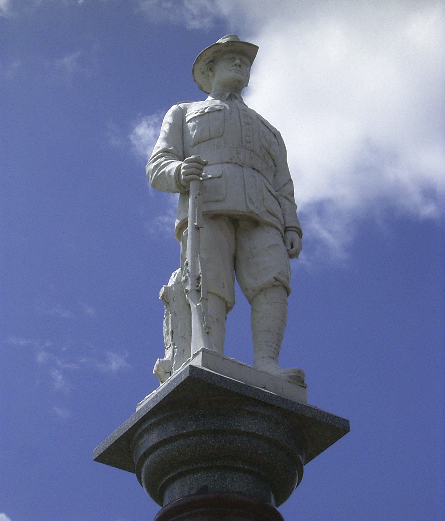 Detail of the war Memorial Moument in the War Memorial Park in the town of Goondiwindi, Queensland.